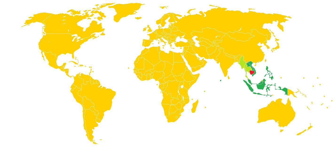 Visa policy of Cambodia Cambodia Visa-free - 30 days Visa-free - 14 days Visa-free for diplomatic and official passports Visa on arrival or eVisa Visa required in advance